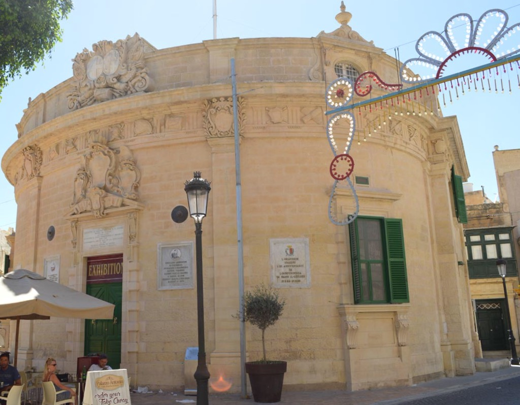 Banca Giuratale